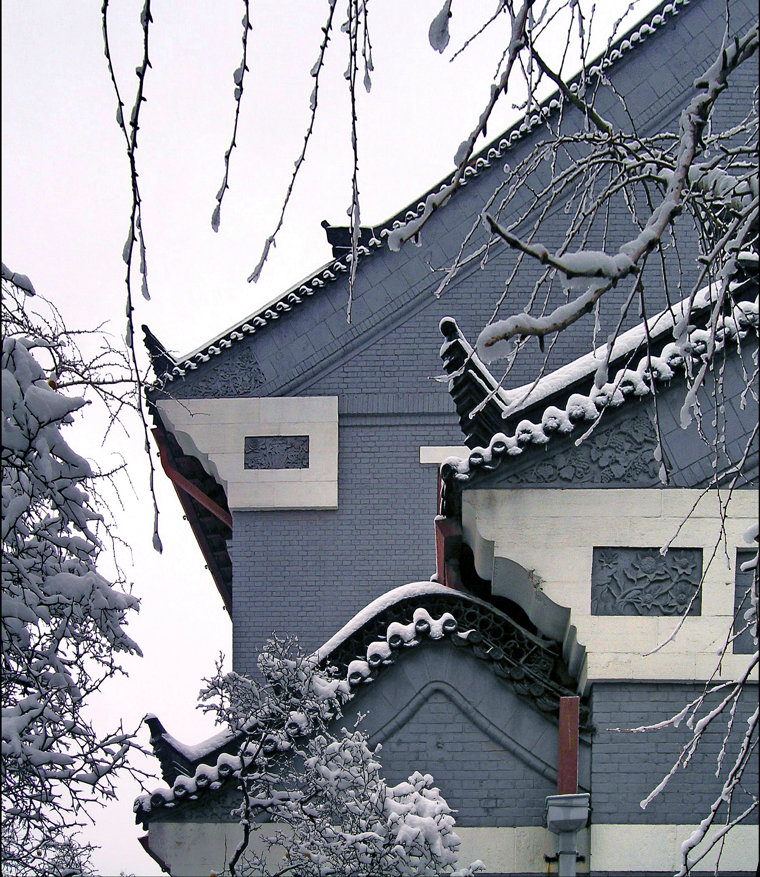 Photograph of a building on the Baotuquan Campus of Shandong University, Jinan, China in winter.